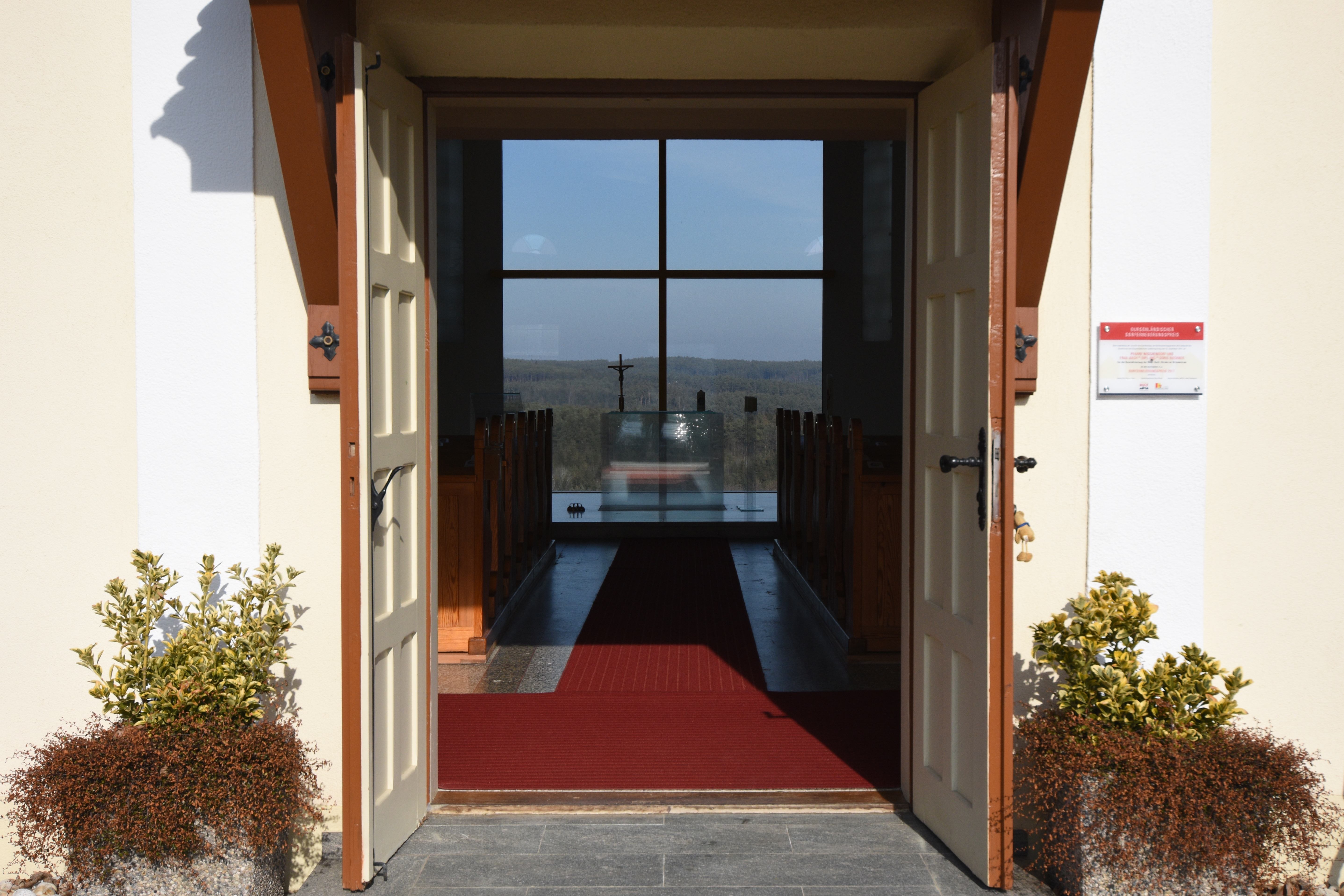 Church Neuhaus in der Wart - Interior